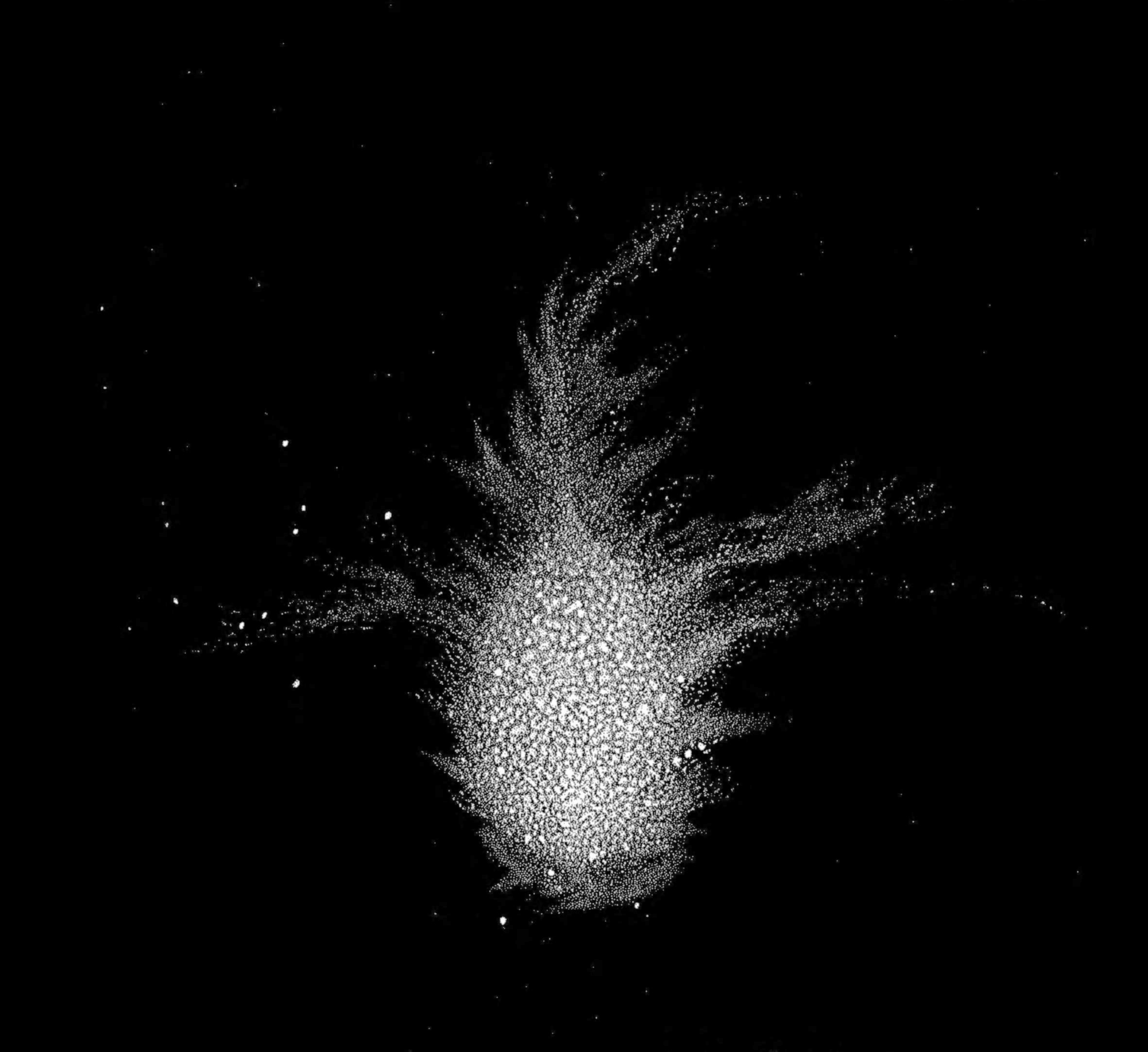 Cropped,inverterted, gauss filtered, gamma corrected Observations on Some of the Nebulae by Earl of Rosse, . Publication date 1844-01-01 Usage Public Domain Mark 1.0 Topics Proceedings of the Royal Society of London, Philosophical Transactions of the Royal Society Publisher Royal Society of London Collection philosophicaltransactions; additional_collections Language English Observations on Some of the Nebulae. Earl of Rosse, Philosophical Transactions of the Royal Society of London (1776-1886). 1844-01-01. 134:321–324 Identifier philtrans07546441 Identifier-ark ark:/13960/t40s0q23v Identifier-doi 10.1098/rstl.1844.0012 Journal-title Philosophical Transactions of the Royal Society of London (1776-1886) Journal-volume 134 Ocr ABBYY FineReader 8.0 Originalurl Page-ending 324 Page-starting 321